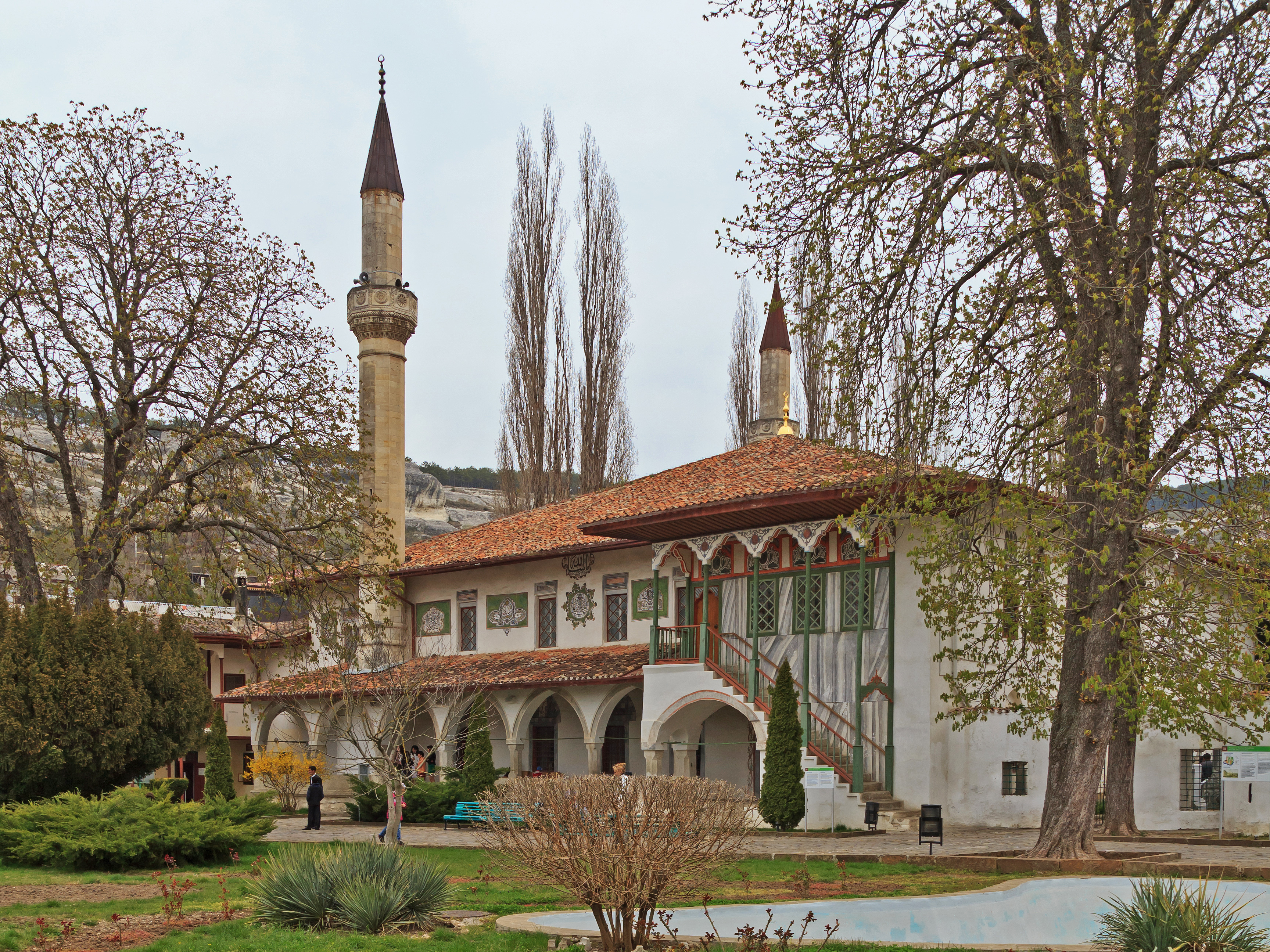 The Grand Mosque of the Khan's Palace (Hansaray) in Bakhchisaray, Crimean Peninsula.